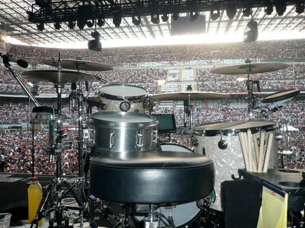 View of Max Weinberg's drum setup on Bruce Springsteen's 2009 tour.